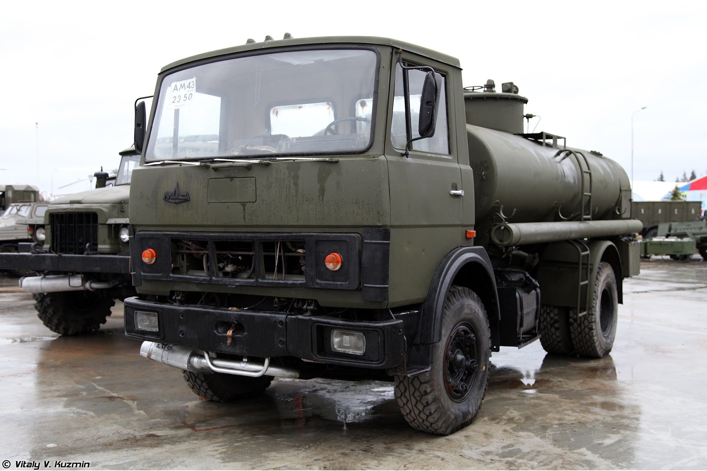 ATs-9-5337 tanker